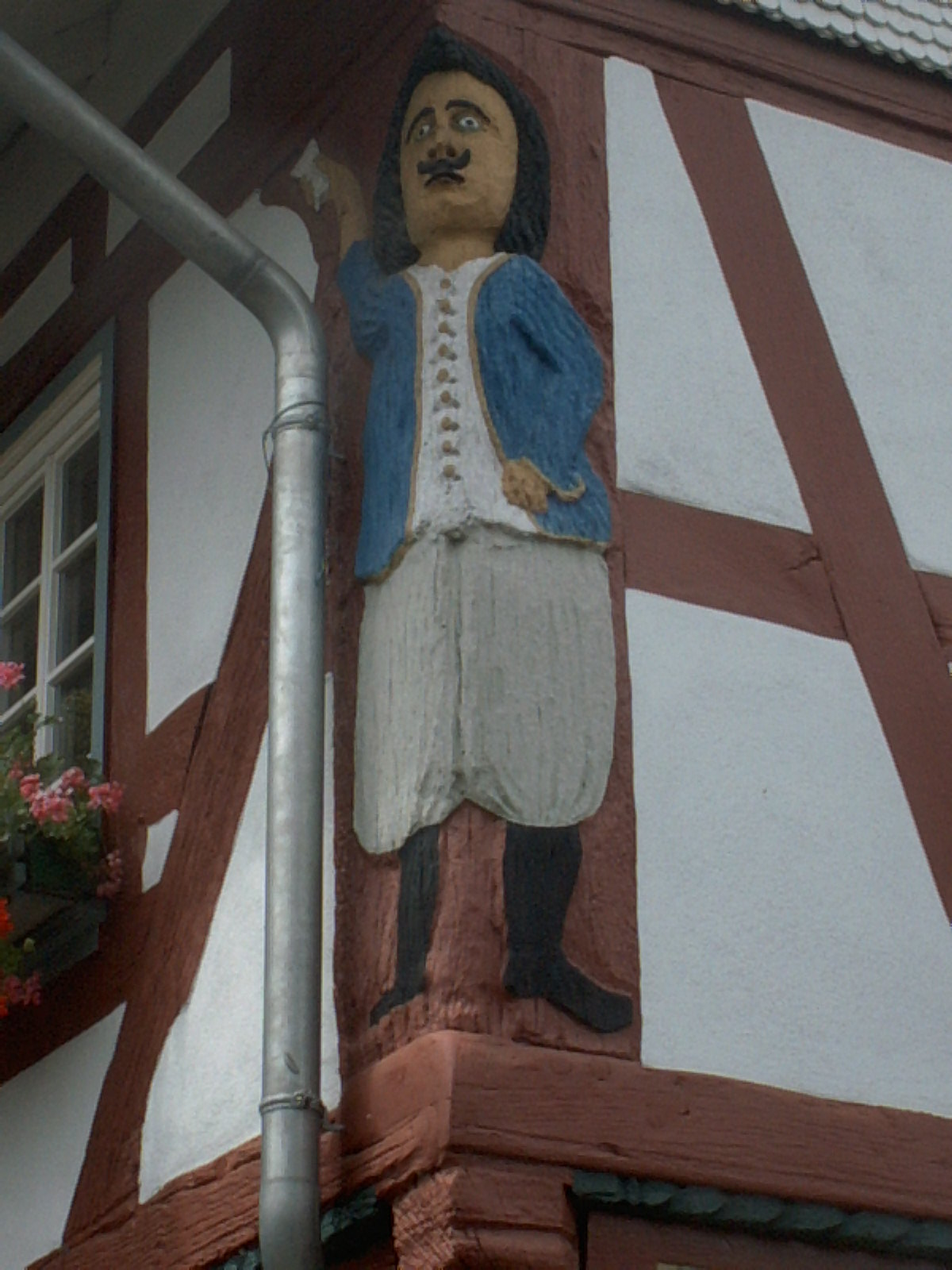 Feldherr Tilly am Rathaus in Maar